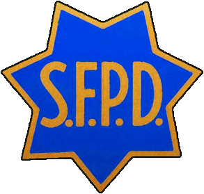 San Francisco Police Department (SFPD) logo, used as decals on SFPD patrol cars since the 20th century.